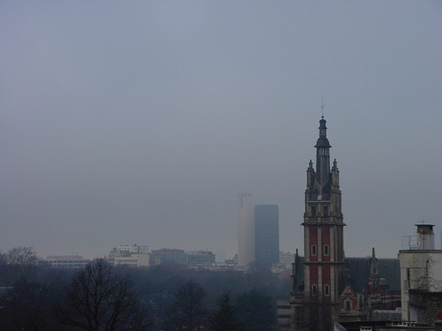 The clocktower at ULB.